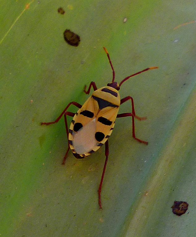 Probergrothius angolensis, main pollinator of Welwitschia mirabilis, in the petrified forest of Korixas (Namibia).